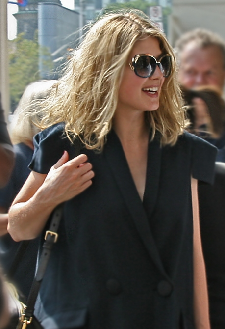 Rosamund Pike at the 2007 Toronto International Film Festival